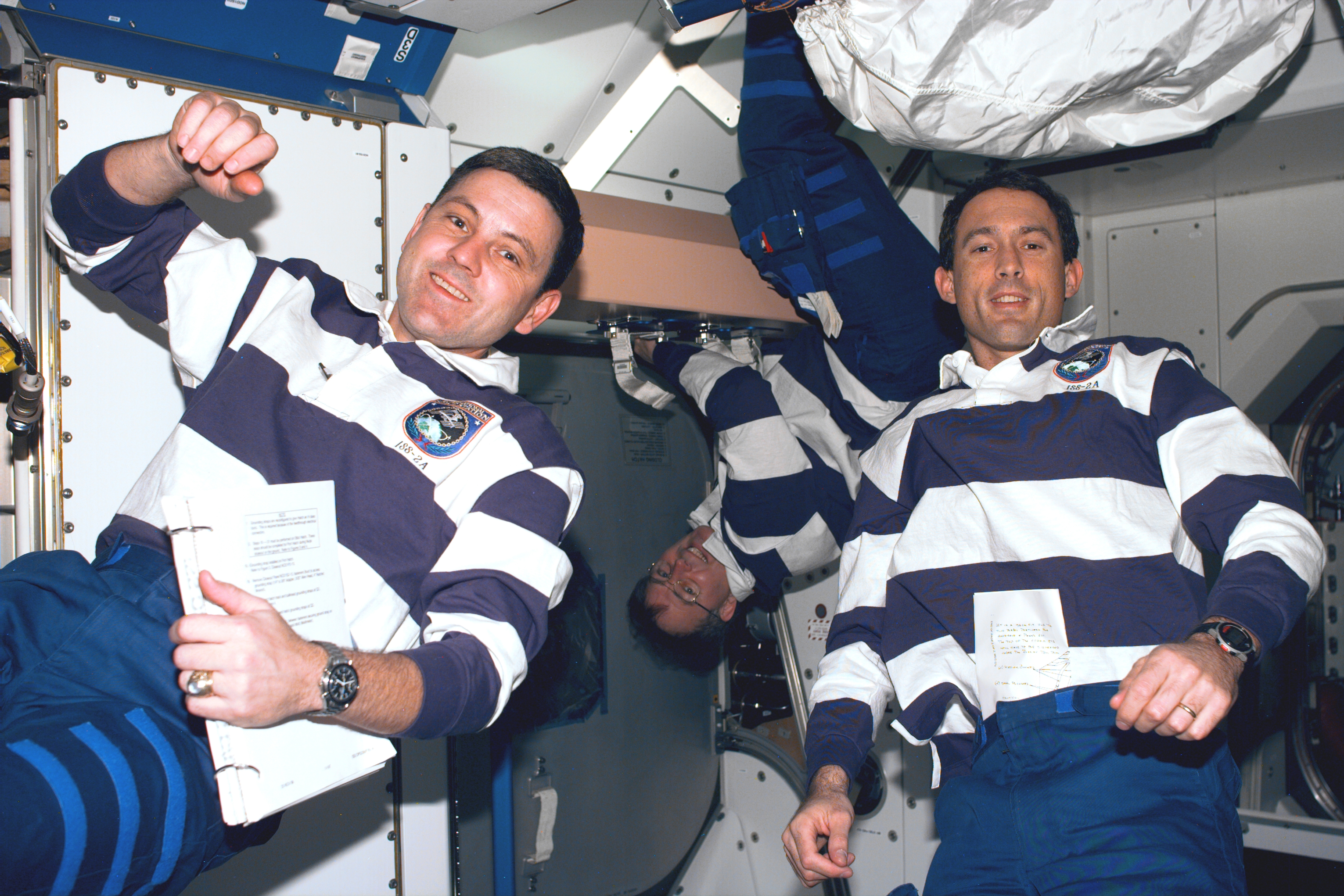 From the left, astronauts Robert D. Cabana, Jerry L. Ross and James H. Newman are pictured during work to ready the Unity conecting module for its ISS role. The photo was taken with an electronic still camera (ESC) at 00:23:27 GMT, Dec. 11.